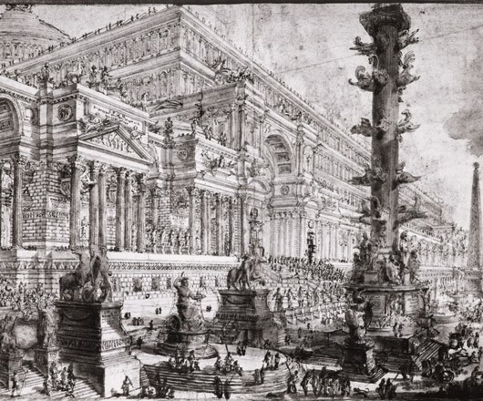 Architectural Fantasy with Colossal Arcaded Façade Overlooking a Piazza with Monuments. This imaginative composition from Piranesi’s early years in Rome anticipated his work in the Prima parte di Architetture e Prospettive (1743). Using dramatic contrasts in scale and perspective, Piranesi situated naval monuments and statues, including the famous Dioscuri, the horse tamers, before a fanciful building with a domed rotunda.